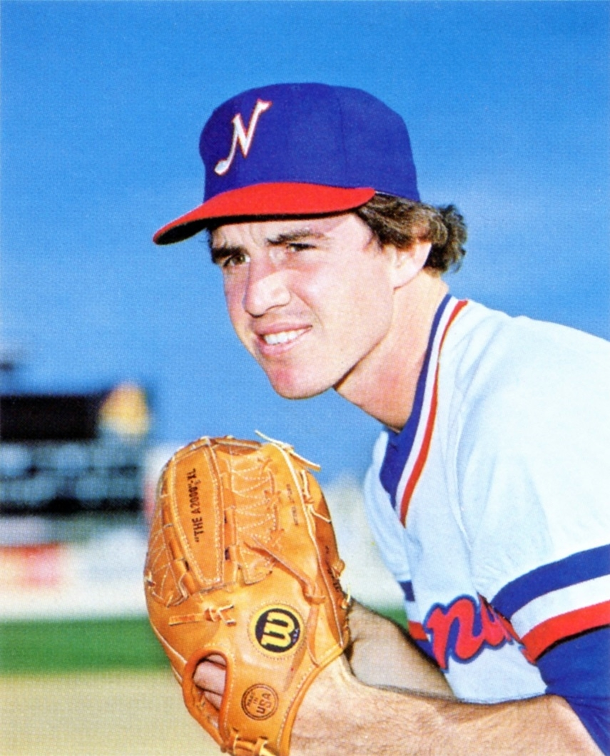 Pitcher Mike Morgan of the 1981 Nashville Sounds Minor League Baseball team of the Southern League